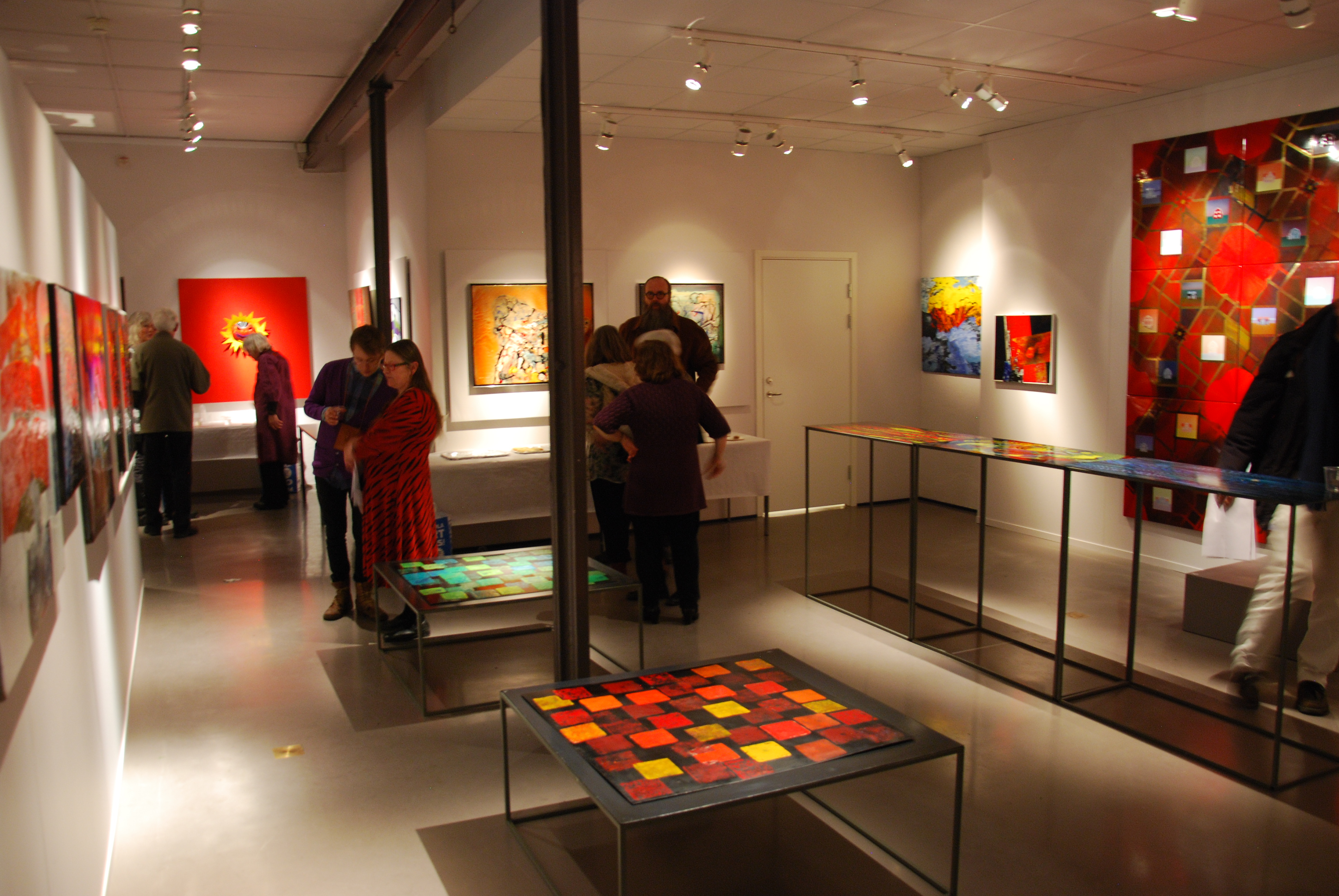 Enamel art exhibition at Gustavsbergs porslinsmuseum February 2012